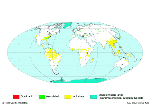 distribution of Alisols